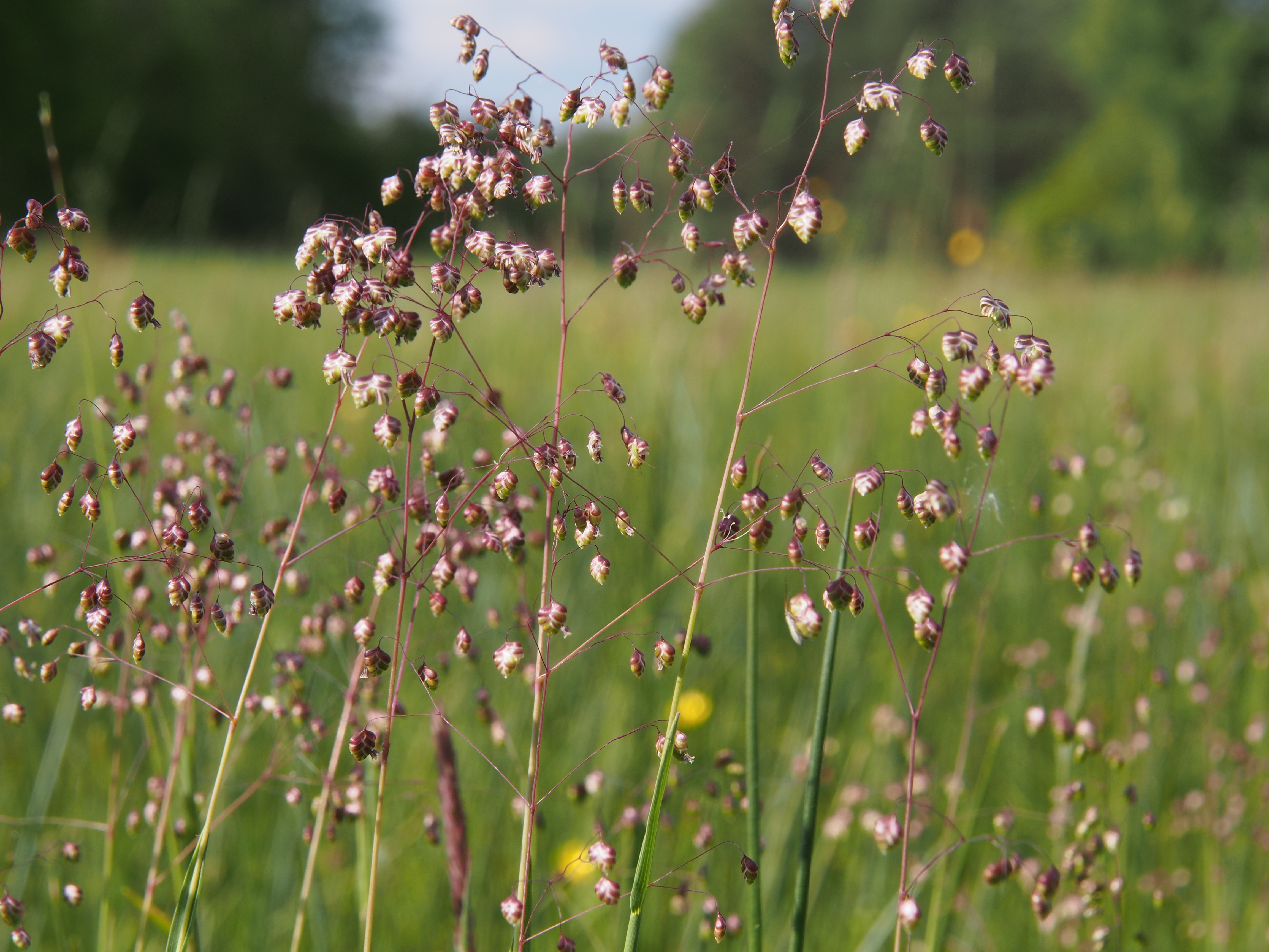 Briza media, Southern Heath Nature Park, Germany